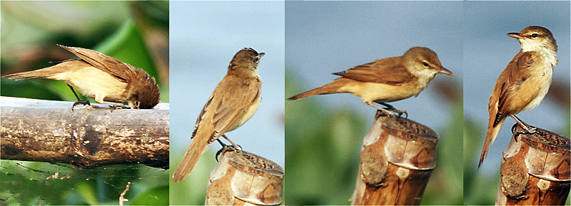 Oriental Reed Warbler (Acrocephalus orientalis) in Kolkata, West Bengal, India.